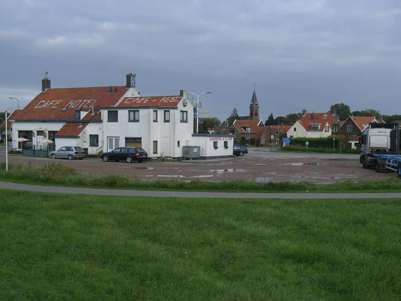 Nieuw- en Sint Joosland; Middelburg, NL